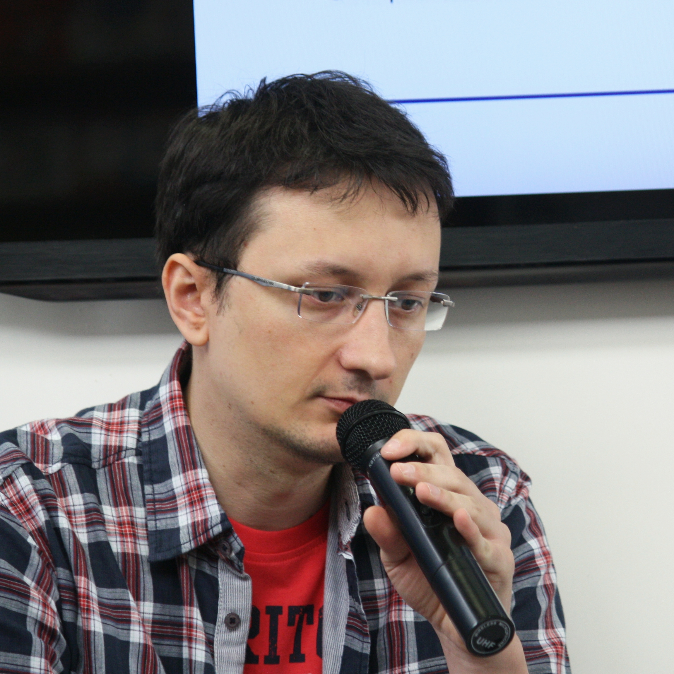 Česky: Svět knihy 2013 Personality rights warning This work depicts one or more identifiable persons. The use of depictions of living or deceased persons may be restricted by laws regarding personality rights. The extent of these restrictions depends on jurisdiction. Personality rights restrictions apply independently of copyright. Before using this content, please ensure that the intended use does not infringe any personality rights under applicable laws. You are solely responsible for ensuring that you do not infringe someone else's personality rights. See our general disclaimer.